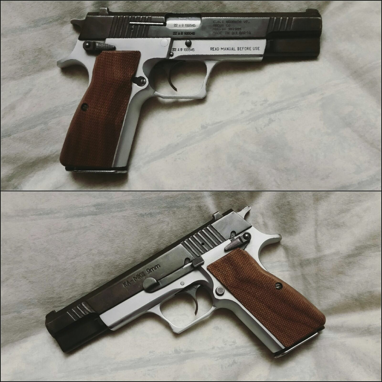 This is a photo of a Browning Hi Power variant that I own.